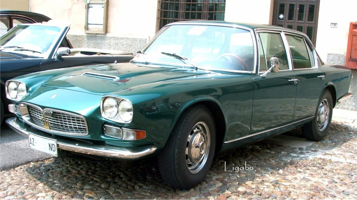 Maserati Quattroporte of 1968 photographed in Medole historic cars gathering of 2007.